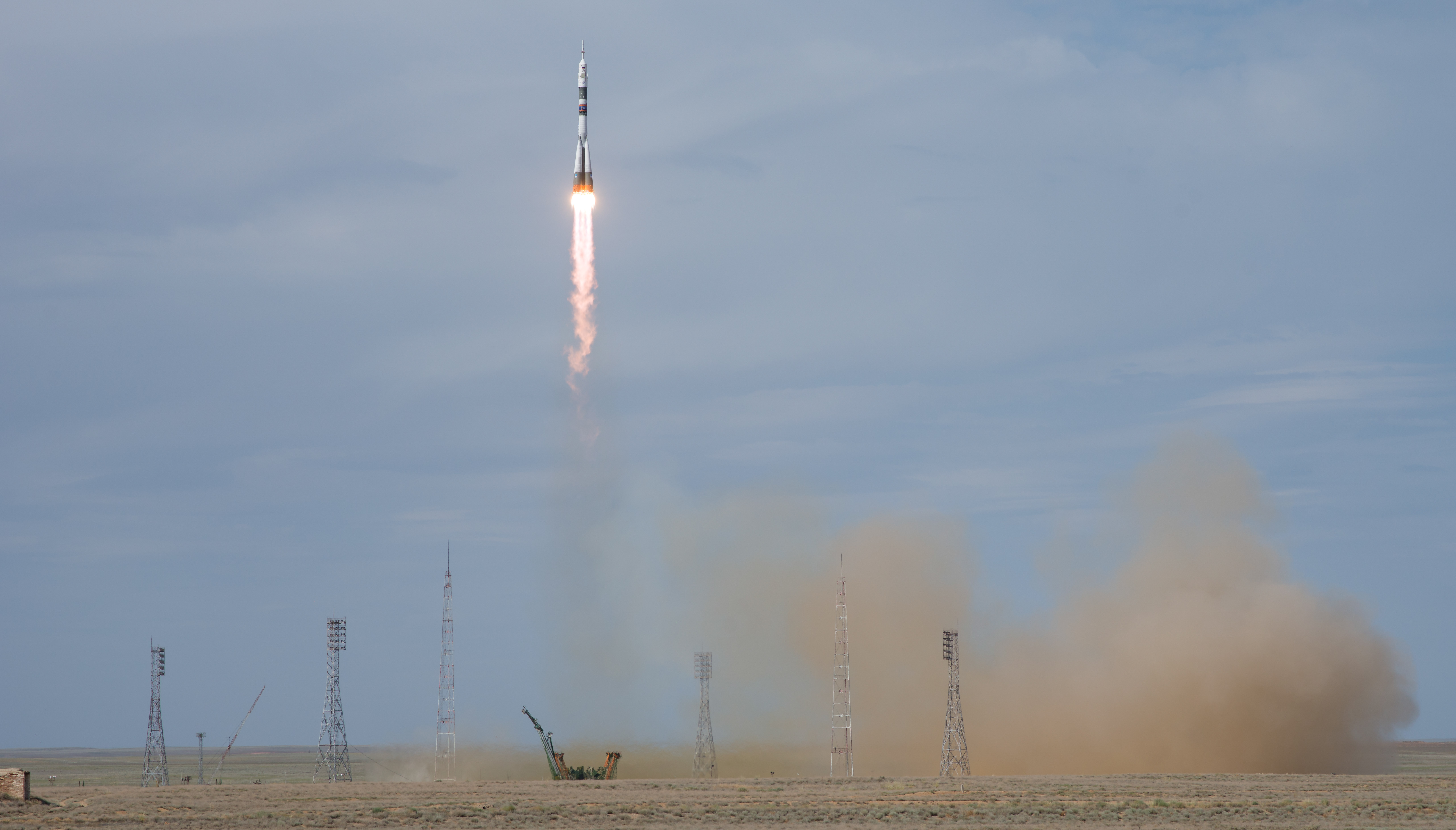 The Soyuz MS-09 rocket is launched with Expedition 56 Soyuz Commander Sergey Prokopyev of Roscosmos, flight engineer Serena Auñón-Chancellor of NASA, and flight engineer Alexander Gerst of ESA (European Space Agency), Wednesday, June 6, 2018 at the Baikonur Cosmodrome in Kazakhstan. Prokopyev, Auñón-Chancellor, and Gerst will spend the next six months living and working aboard the International Space Station.